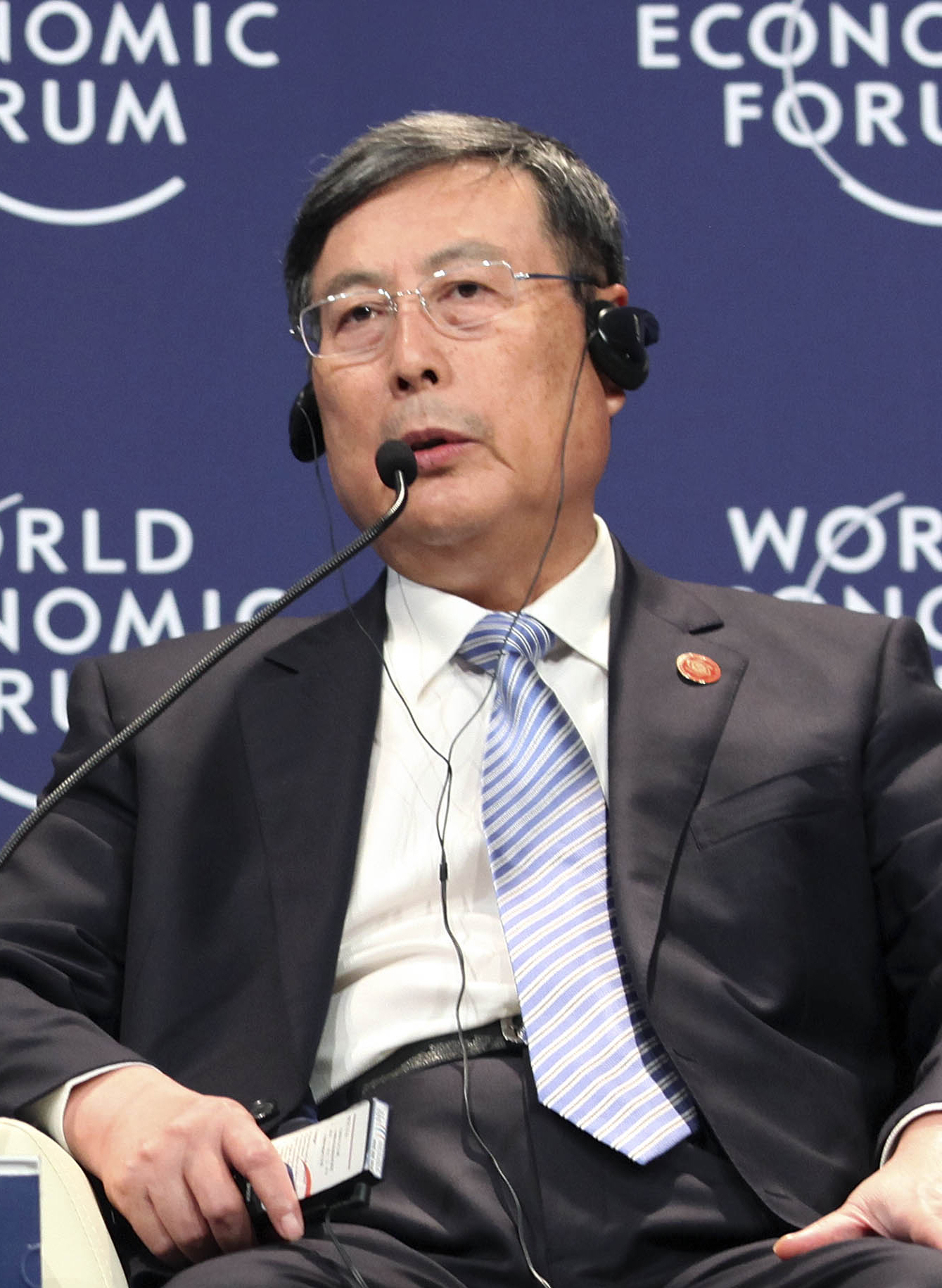 Championing Competitiveness Huang Mengfu, Chairman, All-China Federation of Industry and Commerce (ACFIC), People's Republic of China at the Annual Meeting of the New Champions in Tianjin, China 2012